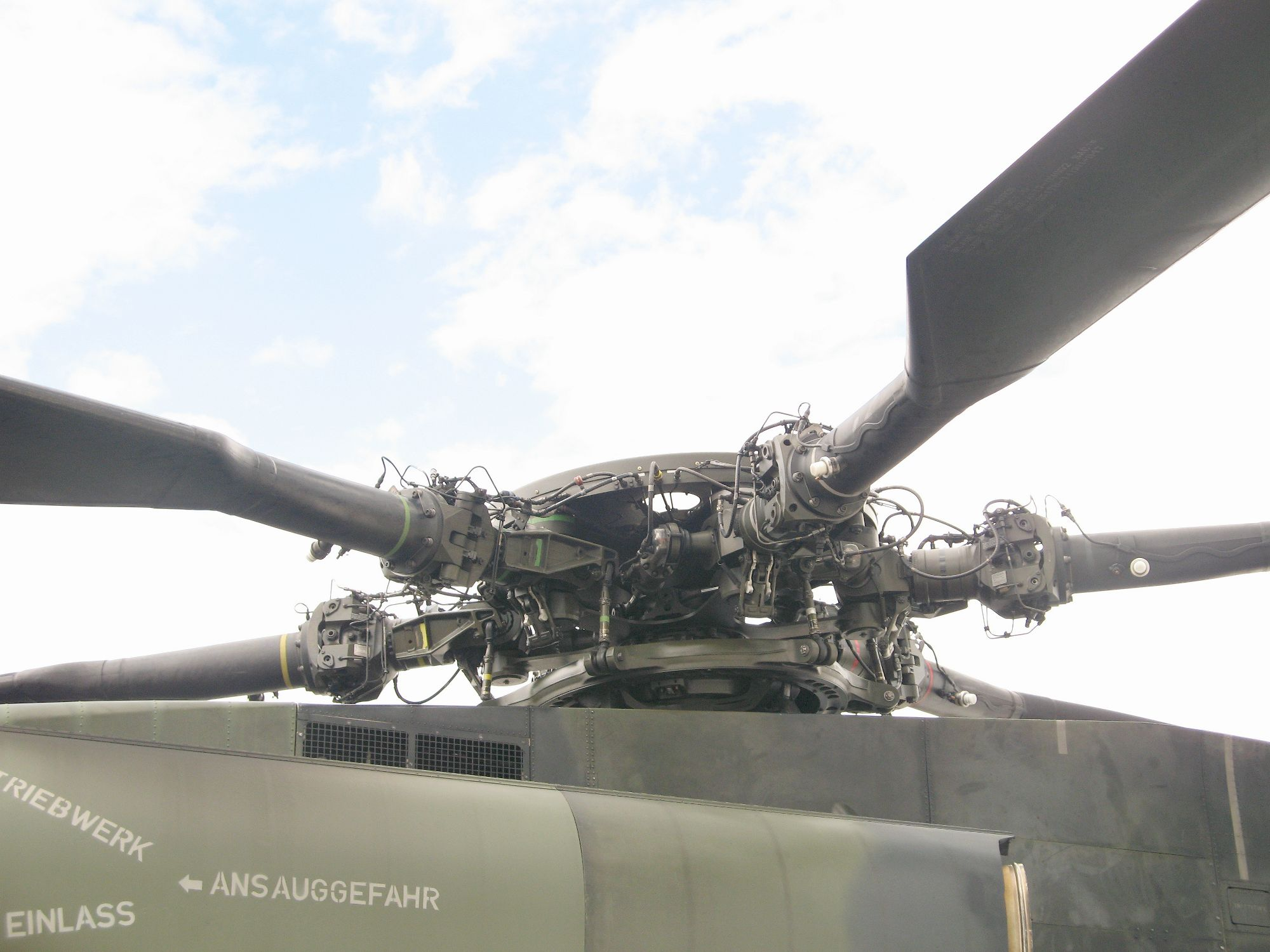 rotor head of a Sikorski CH-53G, shot at Airport Erfurt/Bindersleben, Germany, Flugplatzfest 2007